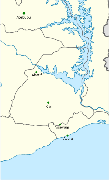 Major settlements visited by George Ekem Ferguson during his October - November 1890 journey from Accra to Atebubu.